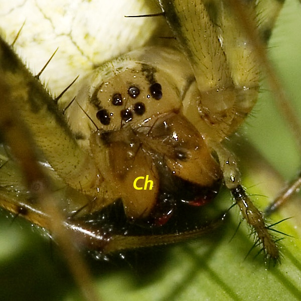 Labidognathous chelicerae of Metellina sp.